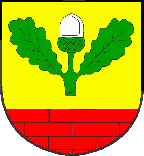 Coat of arms of the municipality Osterby in Schleswig-Holstein, Germany.